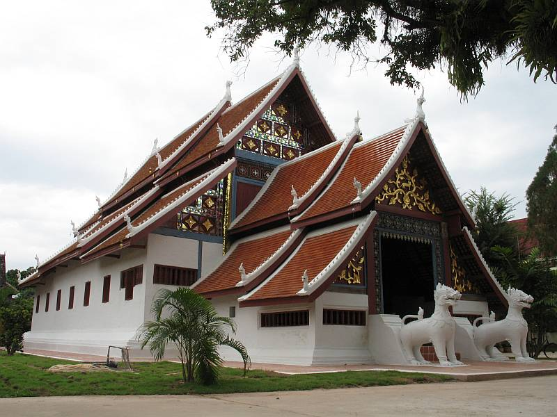 Wat Nong Bua (Thai script:วัดหนองบัว), in the Tha Wang Pha district of Nan province, was built in the 19th century CE by Thai Lue craftsmen who had migrated from southern China.